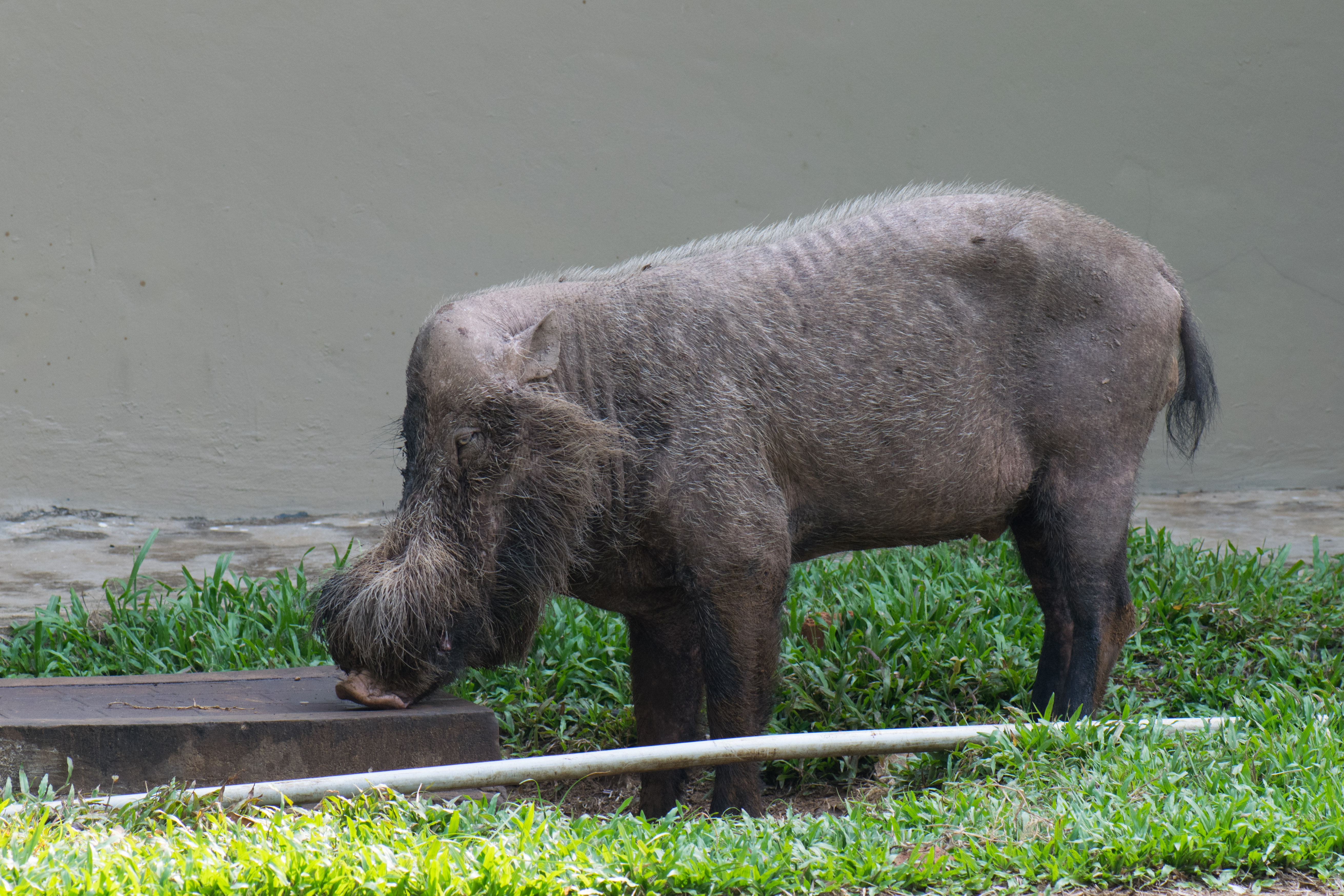 A wild Bornean Bearded Pig wandering through the Bako National Park reception centre, Sarawak, Borneo, Malaysia